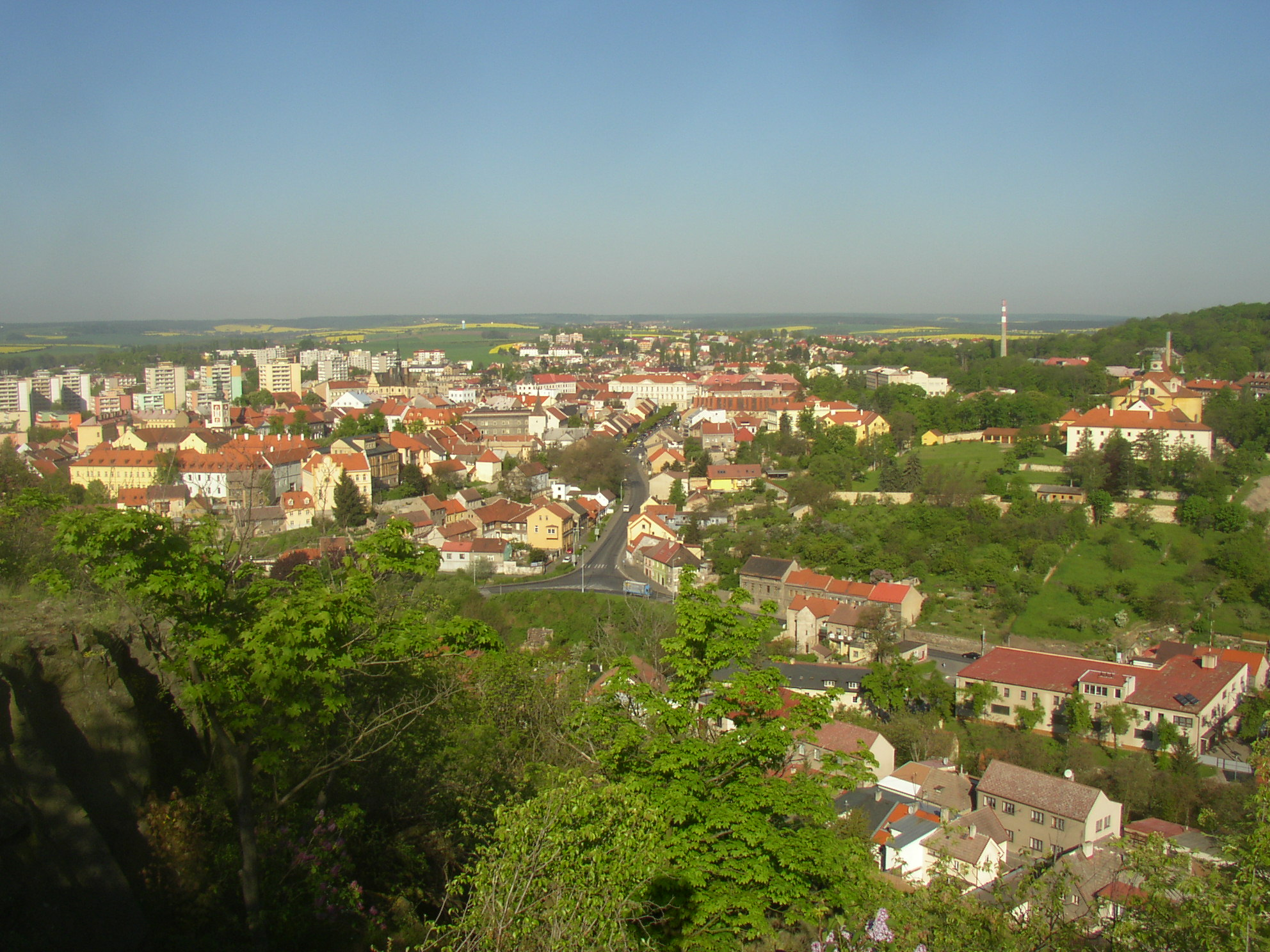 Town of Slaný, Czech Republic, as seen from summit of the Slánská hora hill.